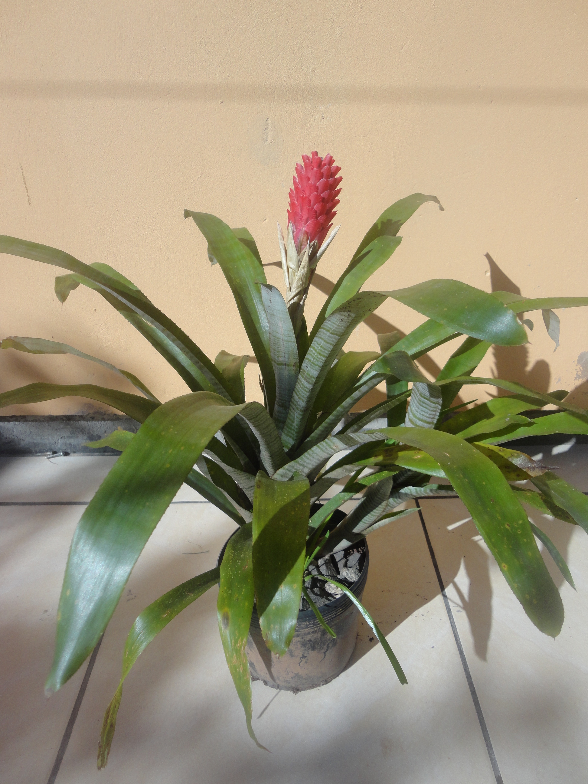 Bromeliaceae